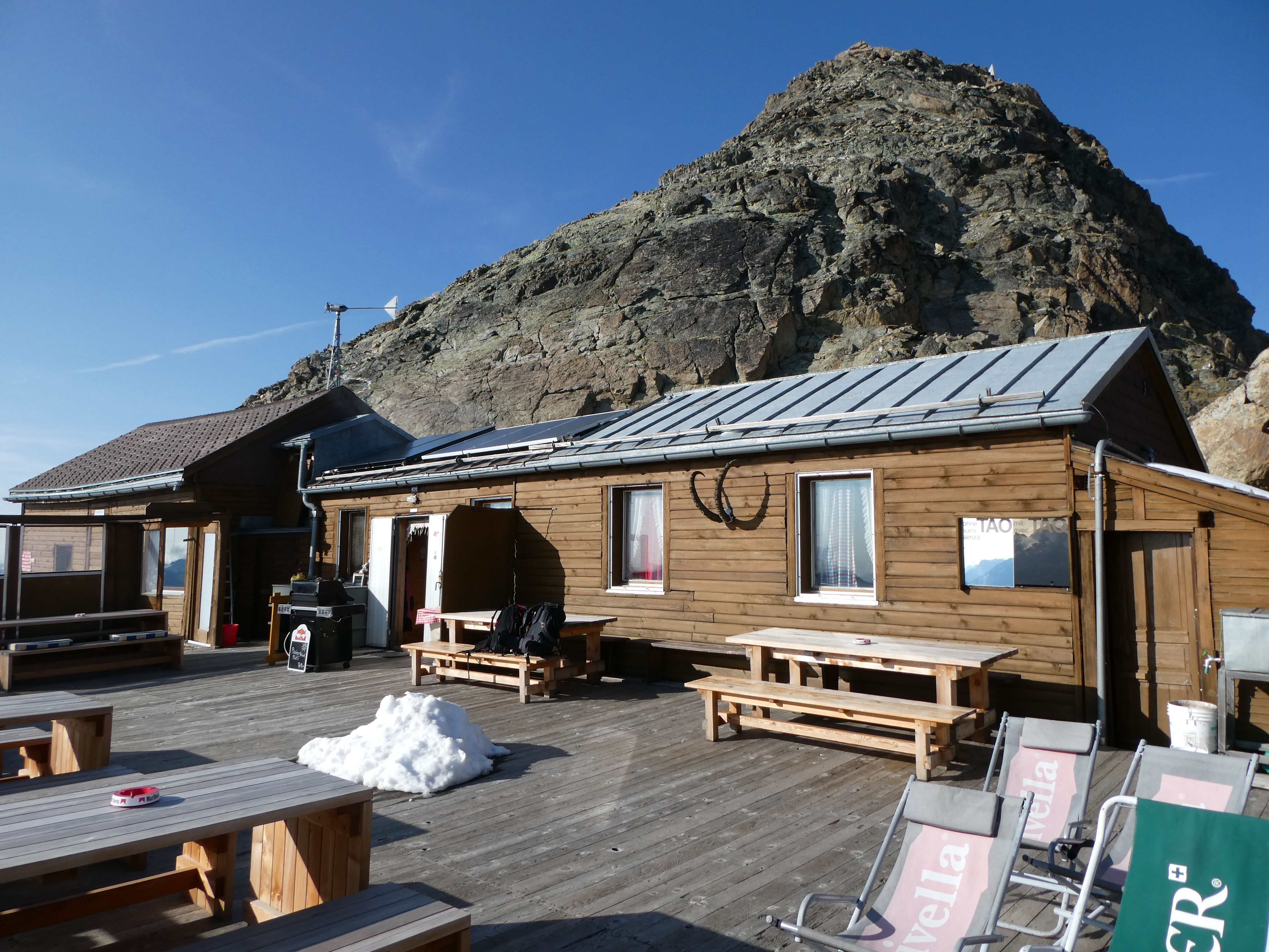 Georgys Hut, Piz Languard in the background (Pontresina/La Punt-Chamues-ch, Grison, Switzerland)